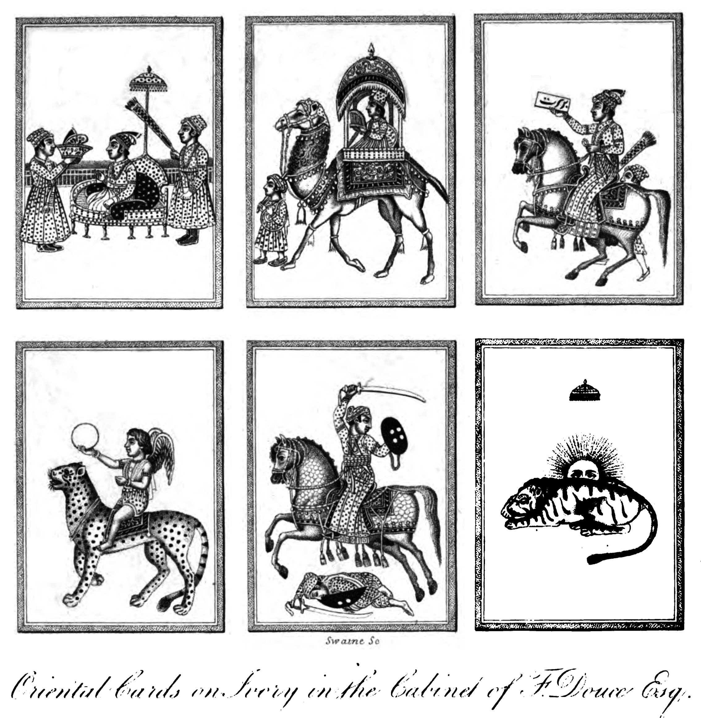 Images of cards from the collection of Francis Douce. The originals were painted on ivory, and illuminated with gold. Title: Researches into the history of playing cards; with illustrations of the origin of printing and engraving on wood Author: Samuel Weller Singer Published: 1816 (London) Available as a Google e-book. Refer to page 16 and plate on following page.